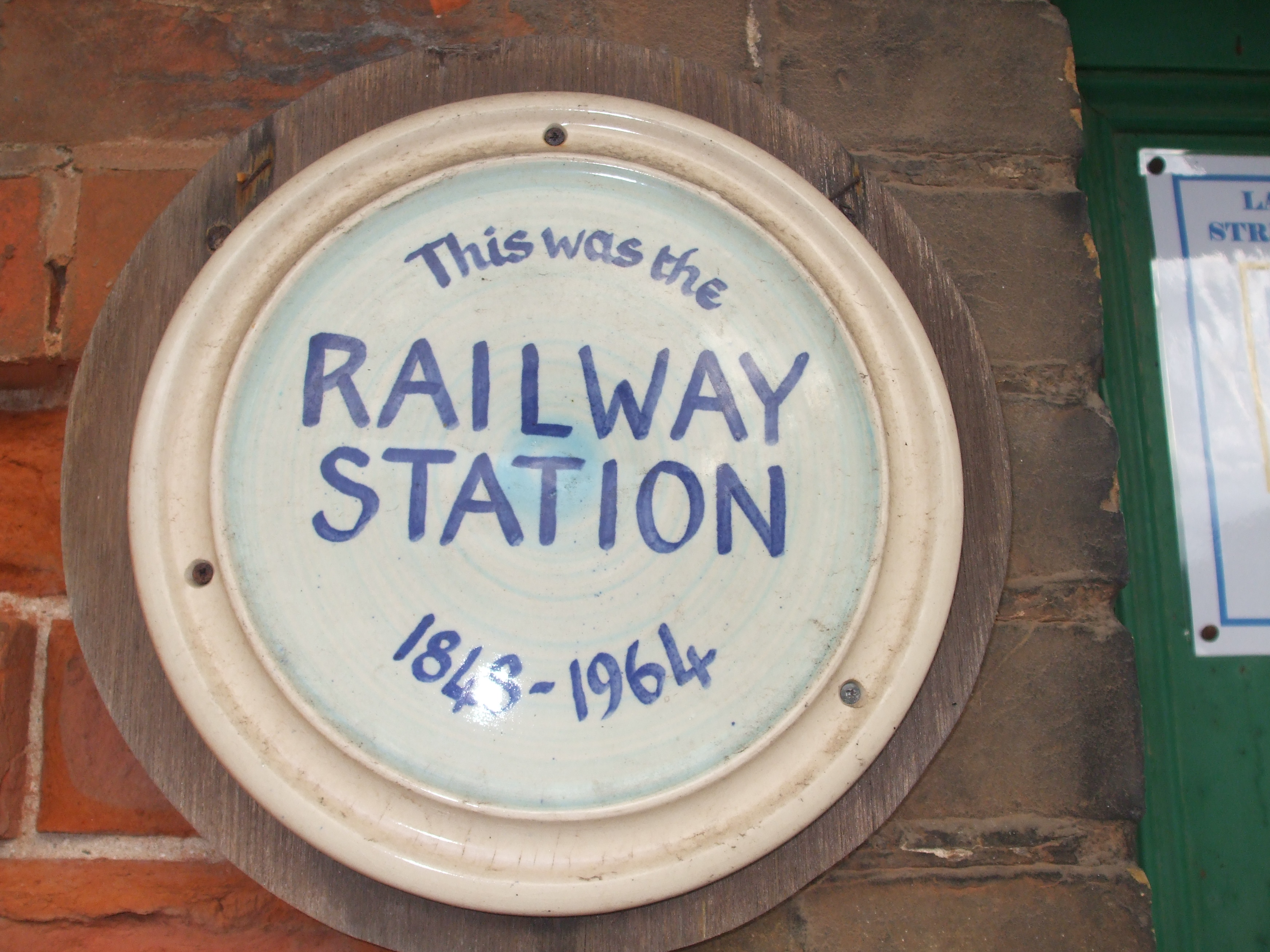 Wells-next-the-Sea Railway Station, Norfolk